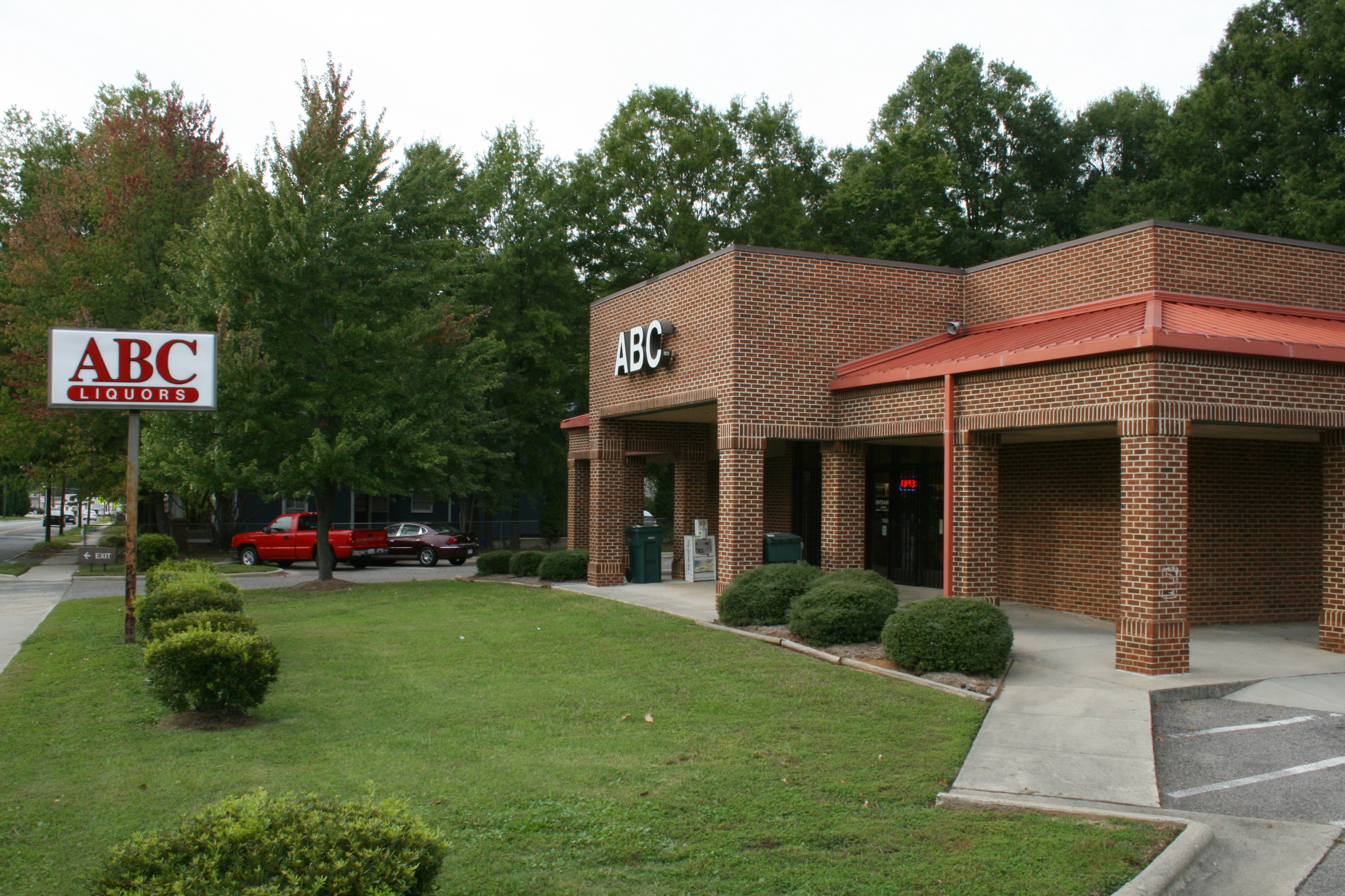 An ABC store, operated by the North Carolina Alcohol Beverage Control Commission, at 2806 Hillsborough Road in Durham, North Carolina.